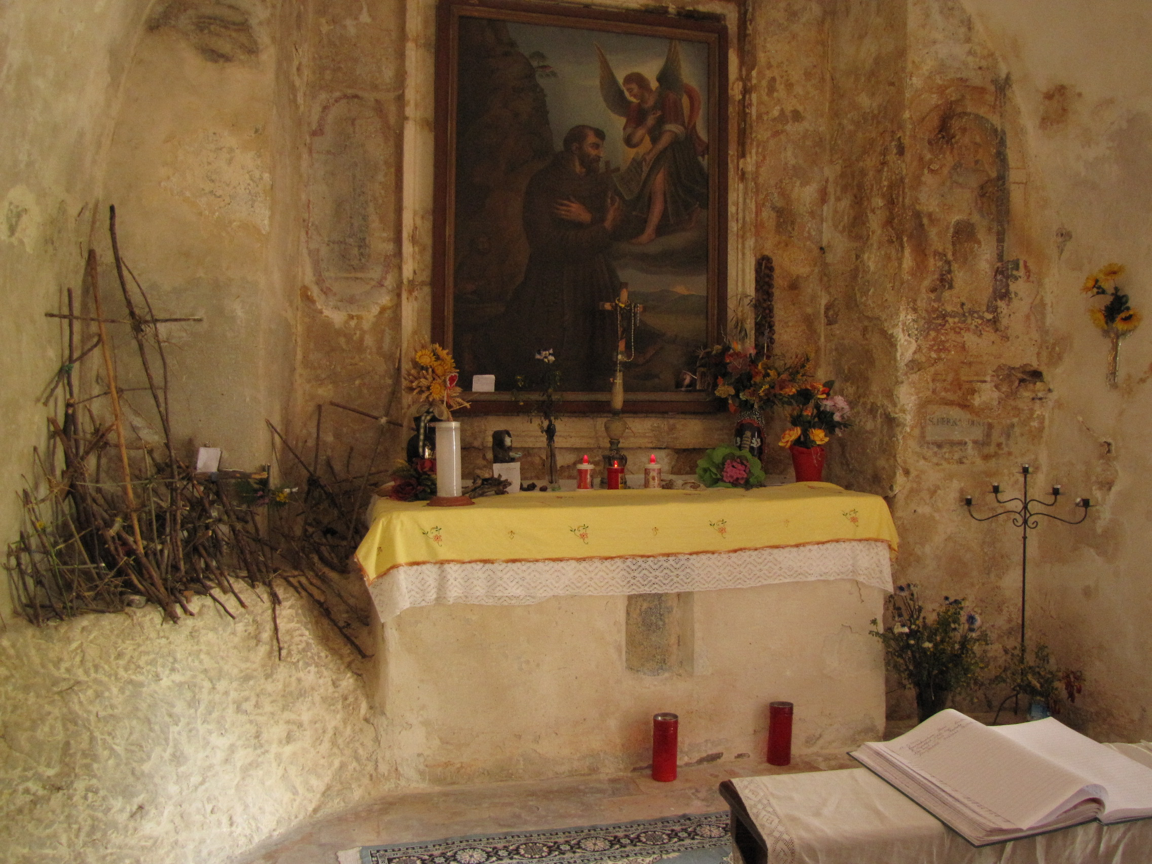 Sacro Speco, church built in a cavern where St. Francis used to pray, near Poggio Bustone sanctuary (Province of Rieti, Lazio, Italy)